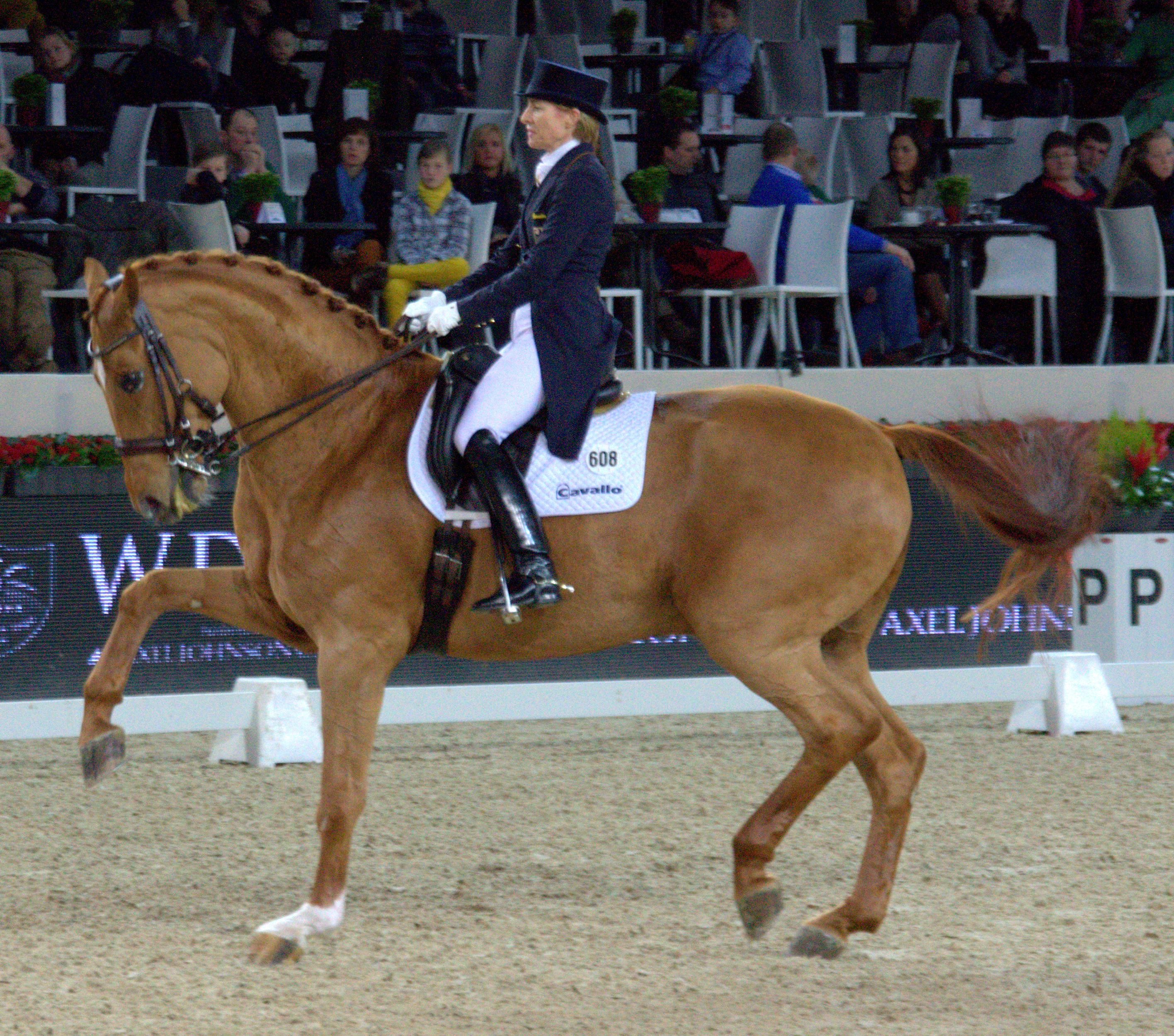 Nadine Capellmann riding Elvis VA, Grand Prix Freestyle at the CDI 5* Mechelen 2012